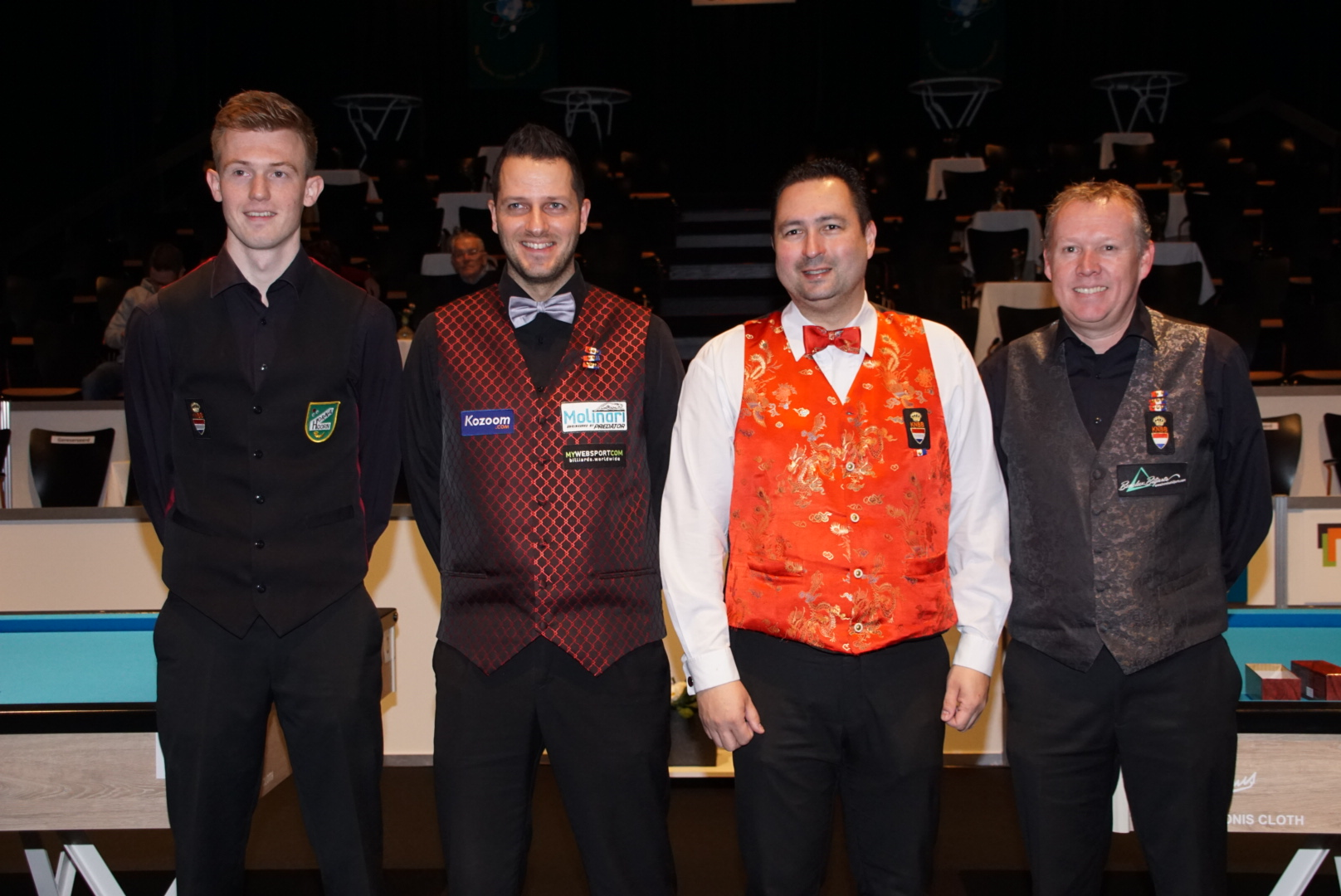 Deelnemers Poule A